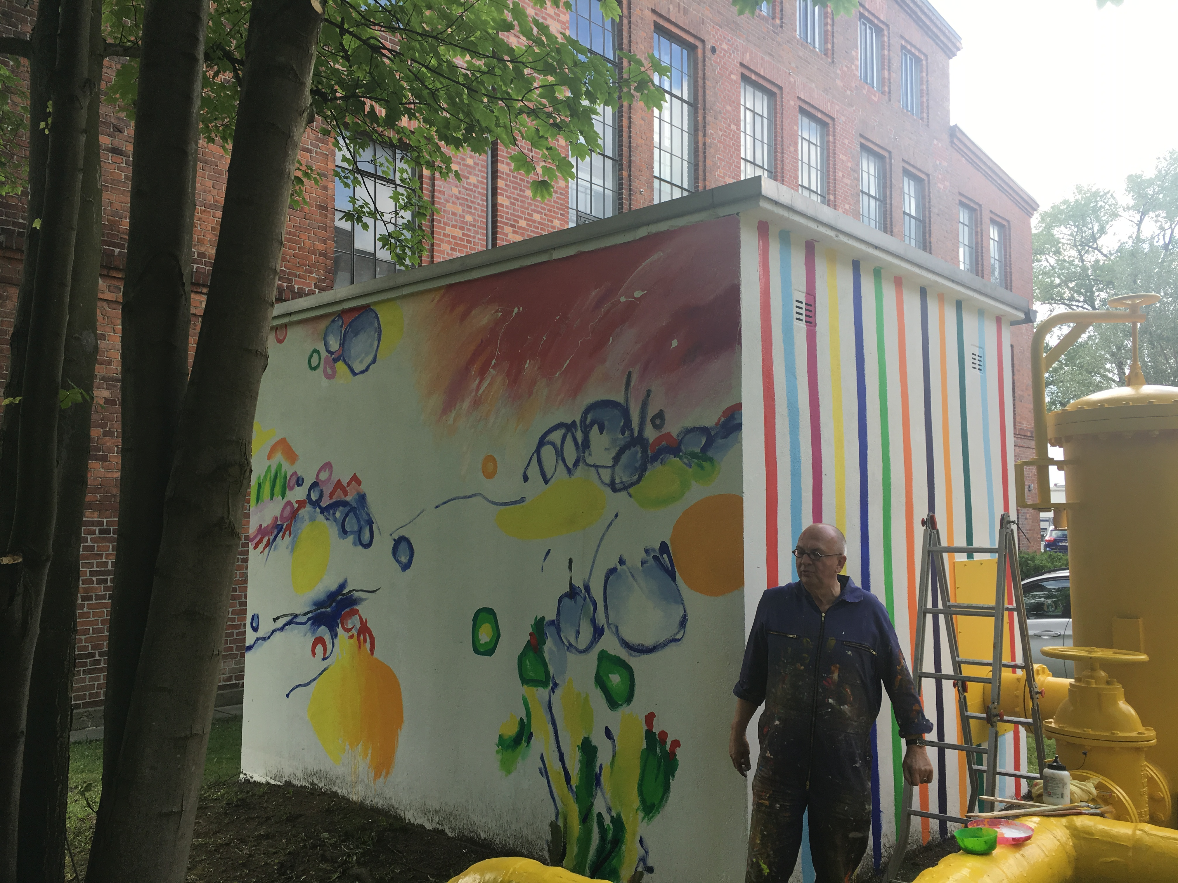 Kesselhaus Lübeck